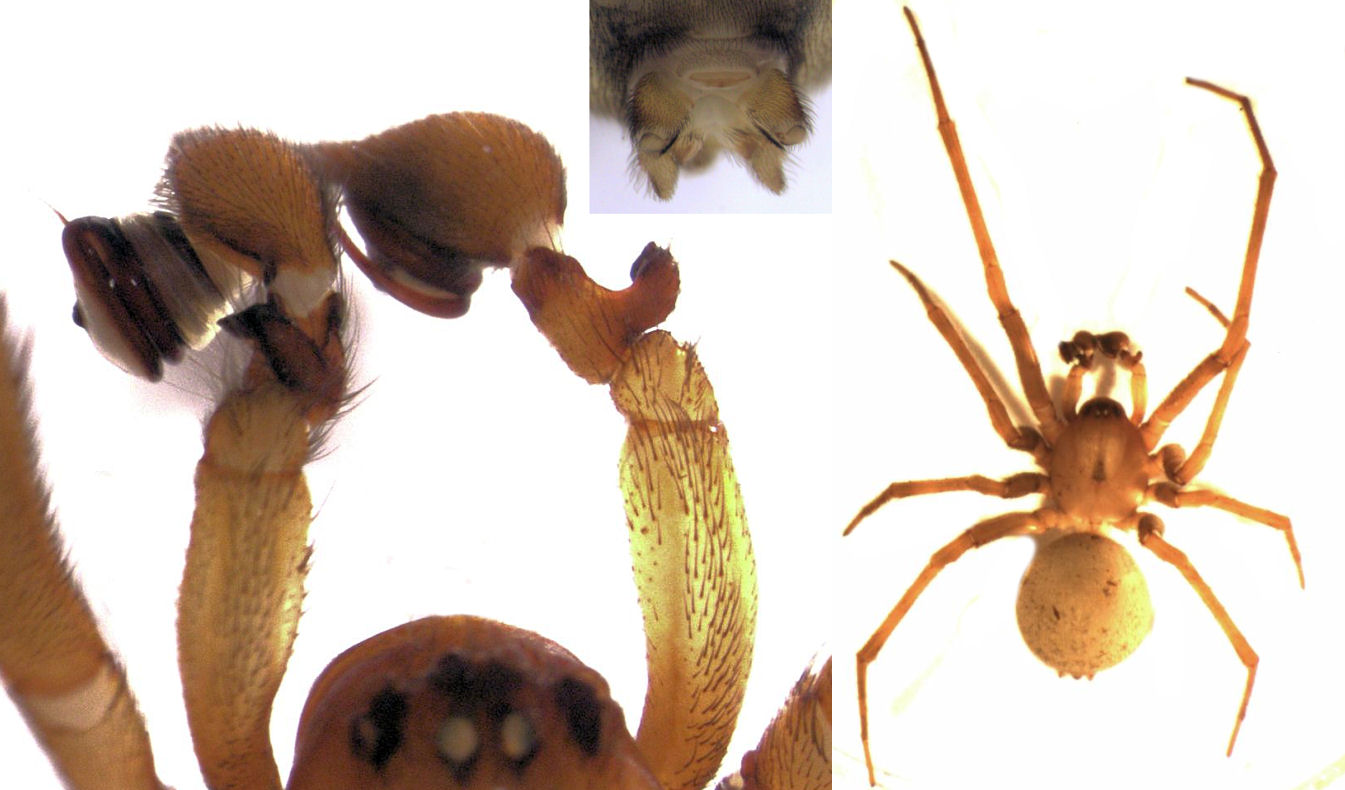 adult male Megadictyna thilenii